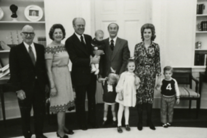 The photo contact sheet, identified as B2348 by the White House Photographic Office (WHPO), is housed at the Gerald R. Ford Presidential Library, a branch of the National Archives and Records Administration (NARA). This file is a 200 dpi photo contact sheet having images from roll of film B2348 of the August 9, 1974 - January 20, 1977 Gerald R. Ford White House Photographic Office Series A0001-A9999 and B0001-B2886 photographs. The date on the photo contact sheet is the date the roll of film was processed, not necessarily the date the photographs were taken. See table below for additional details.